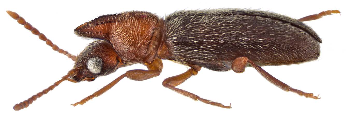 Family: Anthicidae Size: 2,9 mm Location: Botswana, Serowe Village leg.D.Anderson, II.1995; det. G.Uhmann, 1994 Photo: U.Schmidt, 2015